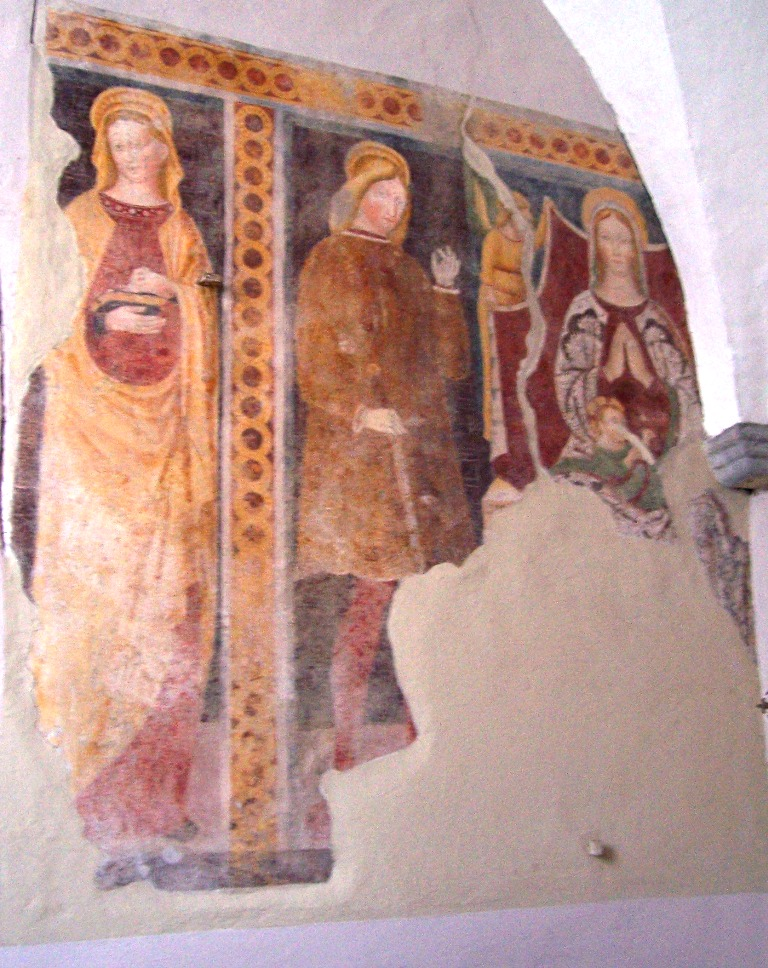 Church in Nadro, Val Camonica, Italia